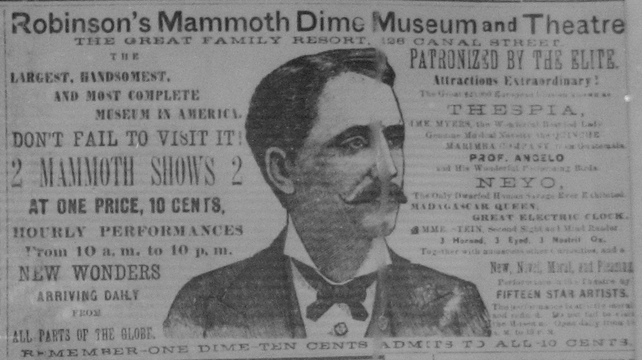 1885 advertisement for "Robinson's Mammoth Dime Museum and Theatre", New Orleans